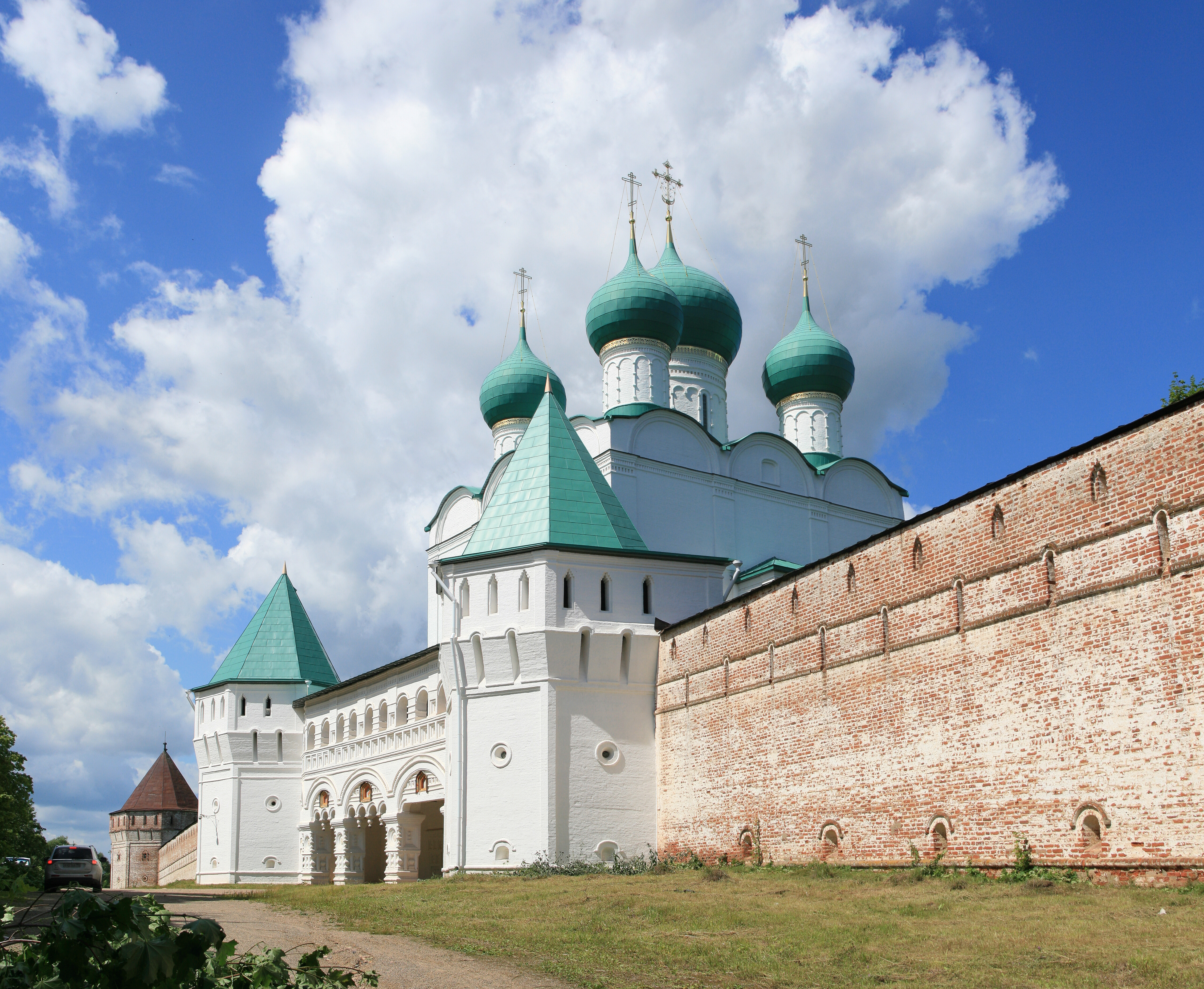 Saint Sergius Gate Church, Borisoglebsky Monastery, Borisoglebsky, Yaroslavl Oblast